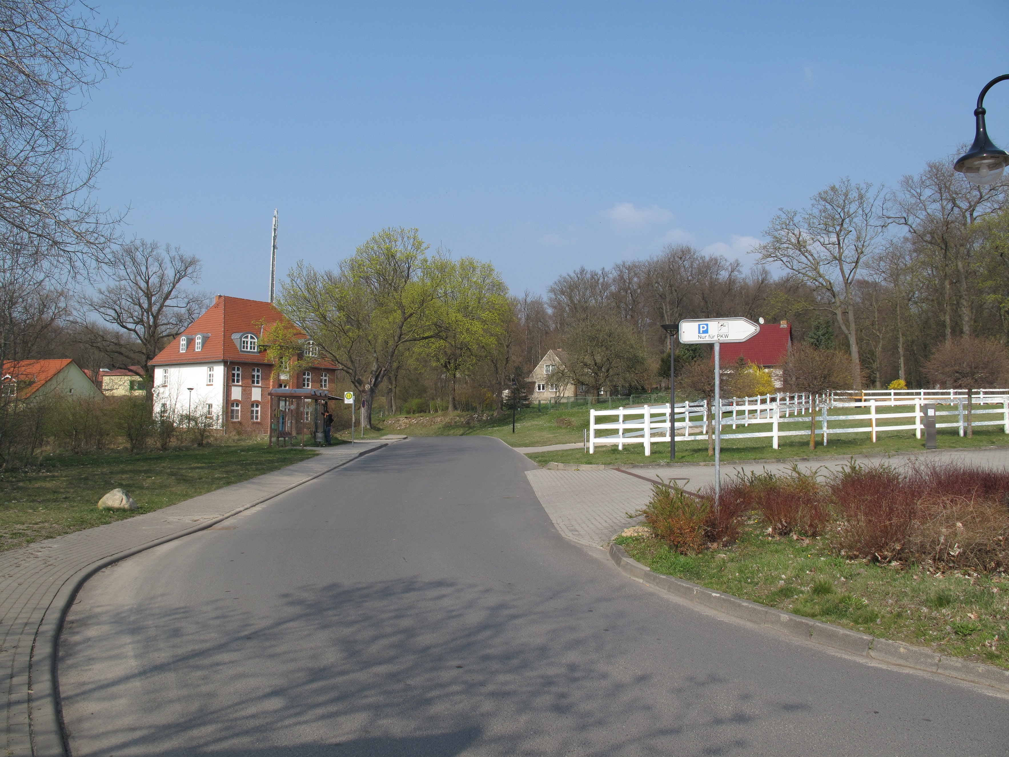 Southeastern entrance to Silberberg and former manor administration house. Silberberg is a part (settlement, estate; german: Wohnplatz) of Bad Saarow, District Oder-Spree, Brandenburg, Germany. The former manor and manor district (german: Gutsbezirk) is situated in a hilly country approximately 1,5 kilometers west of the Scharmützelsee. Silberberg was incorporated into Bad Saarow in 1928.